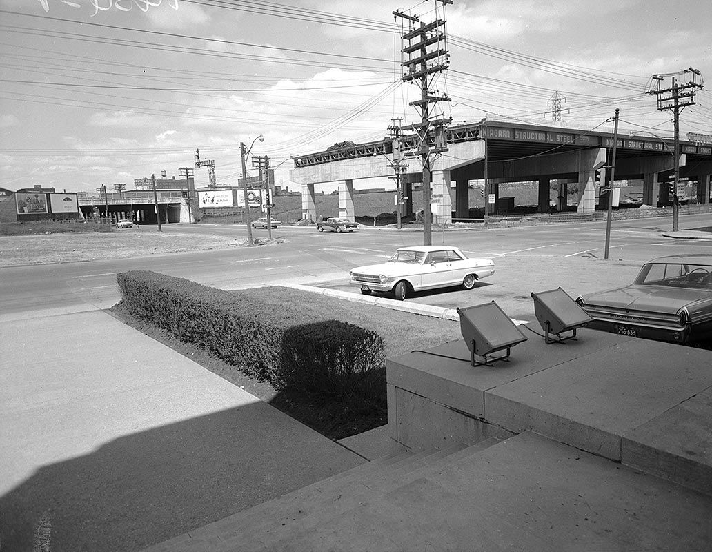 Construction of the Gardiner Expressway, at Jarvis Photographer: Alexandra Studio 1963 City of Toronto Archives This image is available from the City of Toronto Archives, listed under the archival citation Series 1057, Item 5603. This tag does not indicate the copyright status of the attached work. A normal copyright tag is still required. See Commons:Licensing for more information. The POV of this camera is now a two storey parking structure for a large high-end Loblaws store.